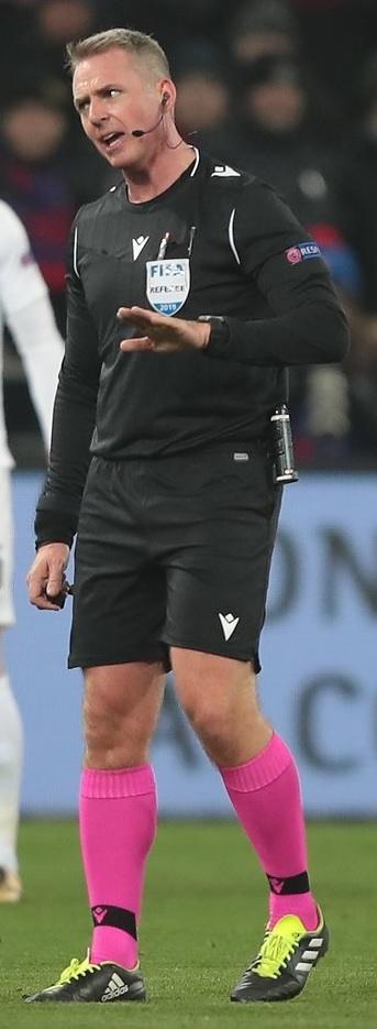 Jakob Kehlet refereeing an Europa League game between PFC CSKA Moscow and PFC Ludogorets Razgrad.